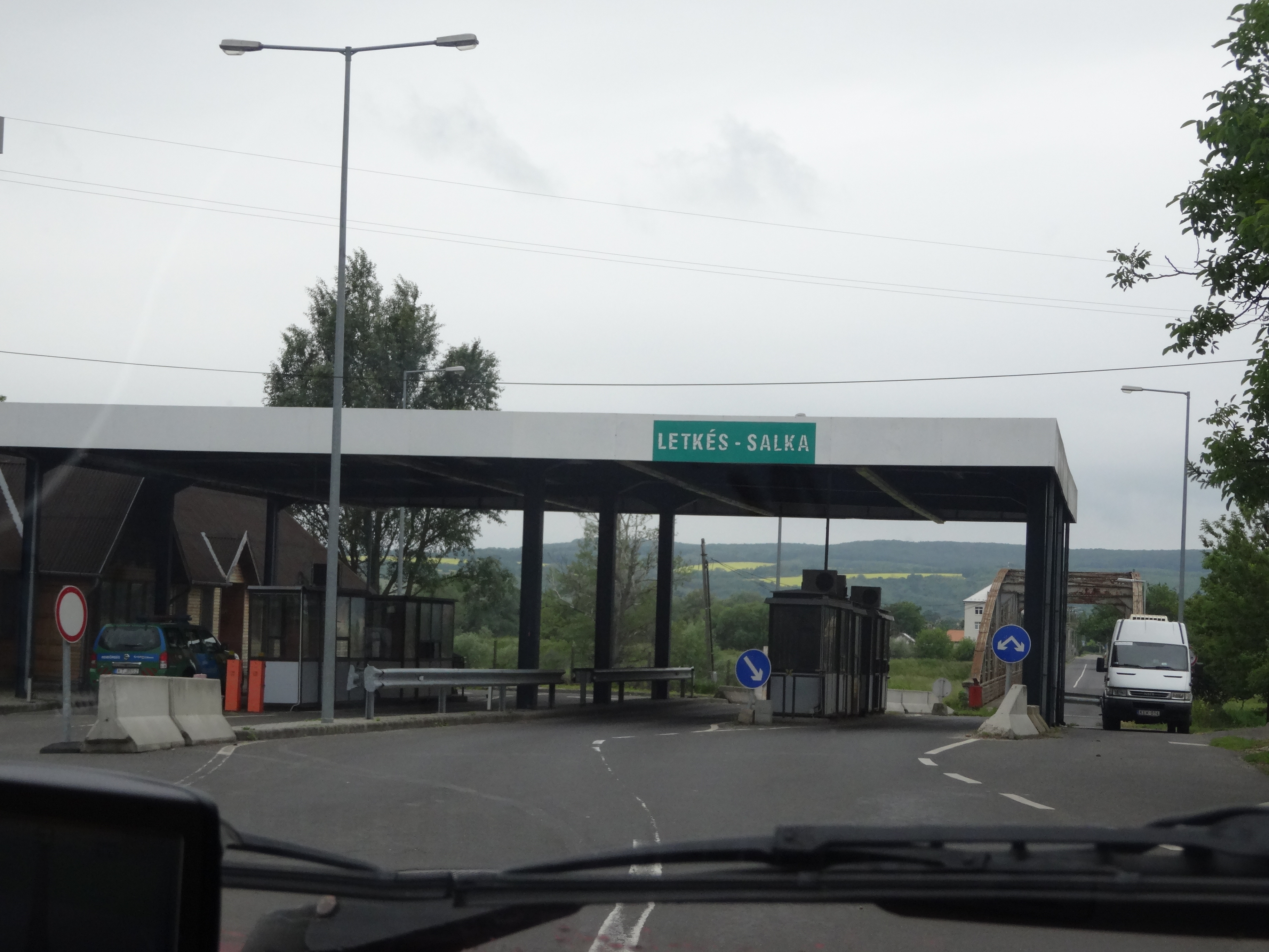 Hungarian-Slovak border